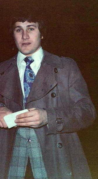 Gilbert Perreault poses for a picture on April 1, 1975 at Boston Garden, while signing autographs, following a game between the Buffalo Sabres and Boston Bruins.